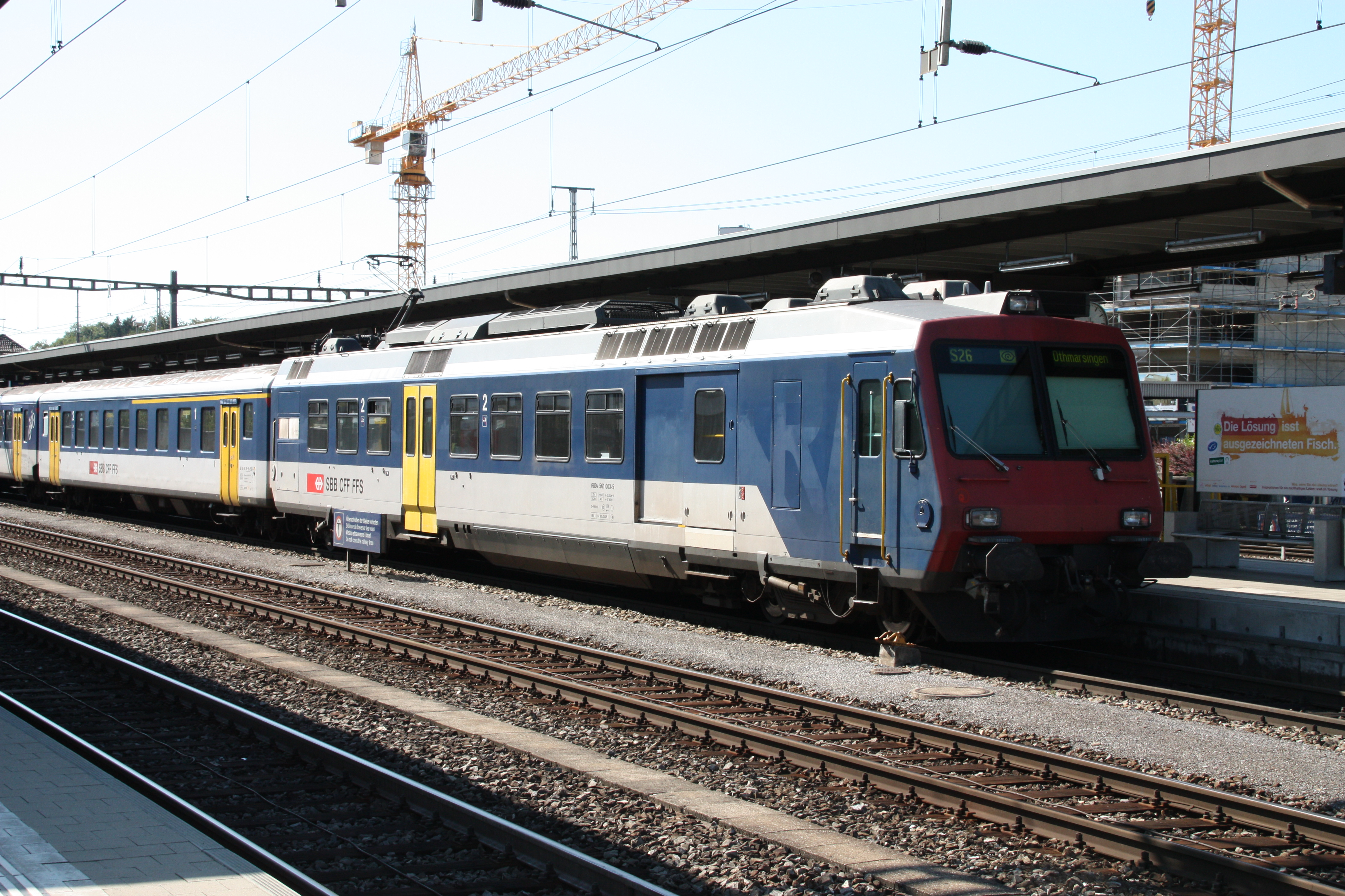 Rotkreuz train stationRBDe 561S26 7057 arrived from Aarau and departs as S26 7362 to Othmarsingen (see end-of-train light)